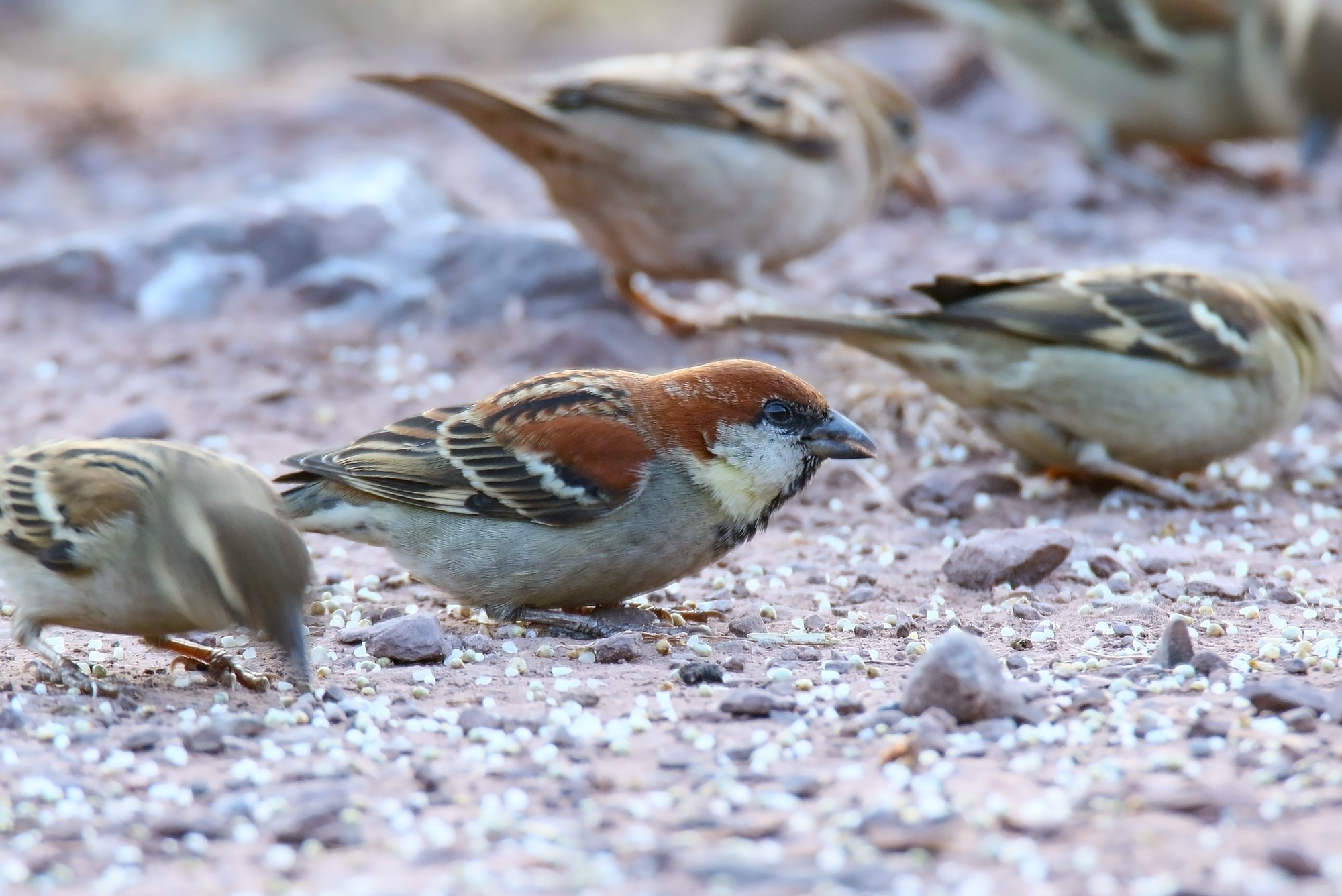 Russet Sparrow (Passer rutilans) captured at Musyari, Murree, Punjab, Pakistan with Canon EOS 7D Mark II